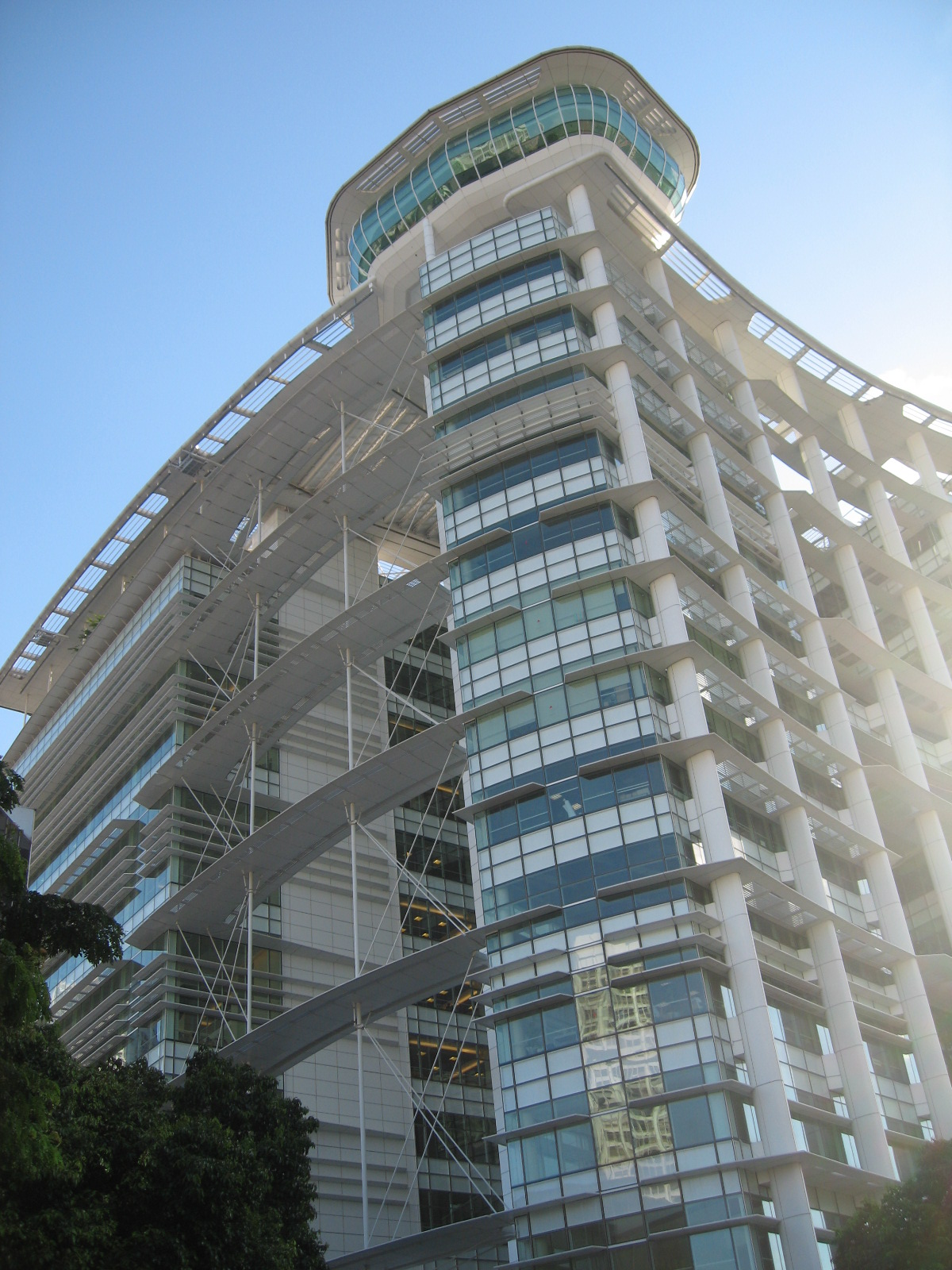 National Library, Singapore.